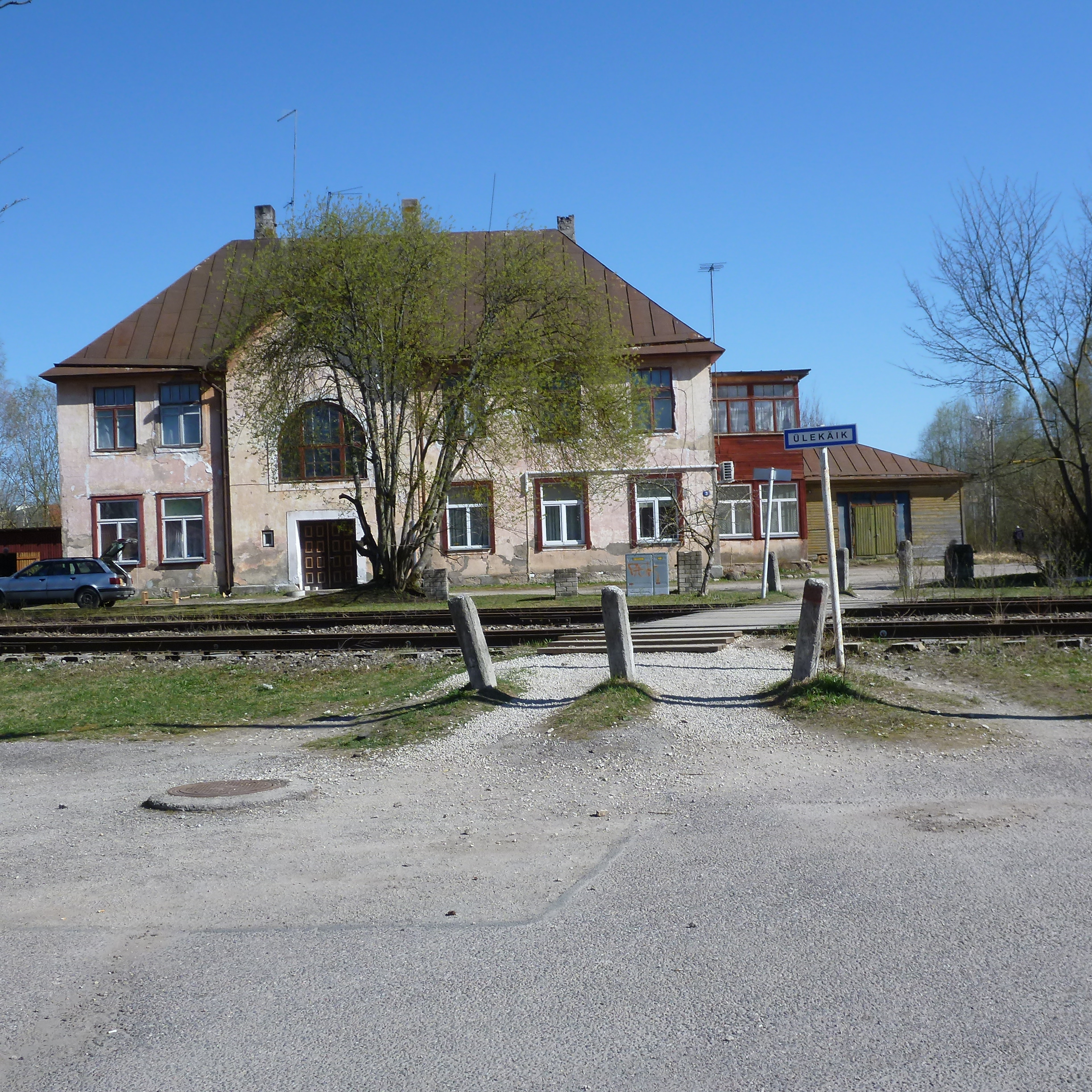 A house in Viljandi